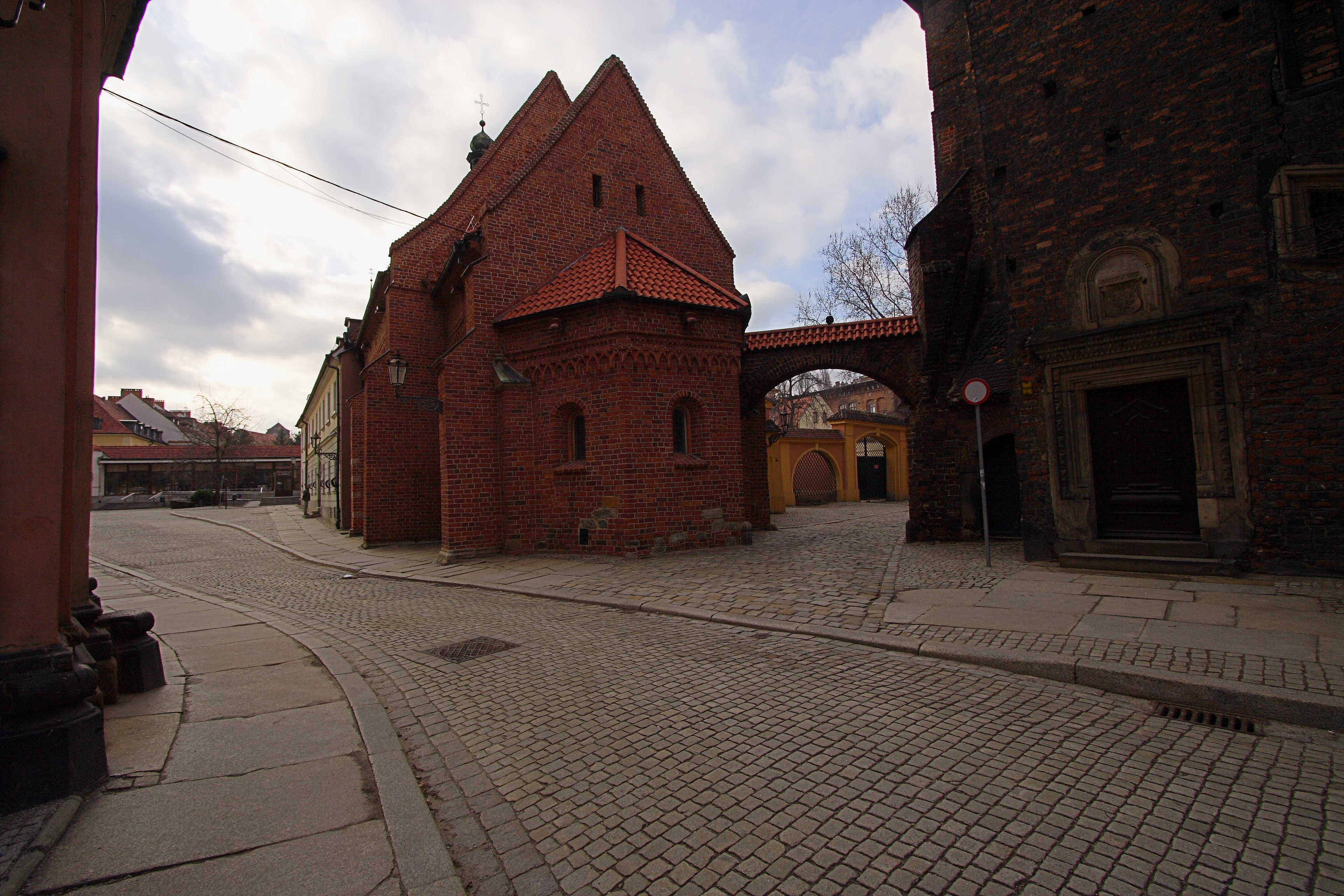 Saint Giles church in Wrocław (Wroclaw during WikiConference Poland'11)